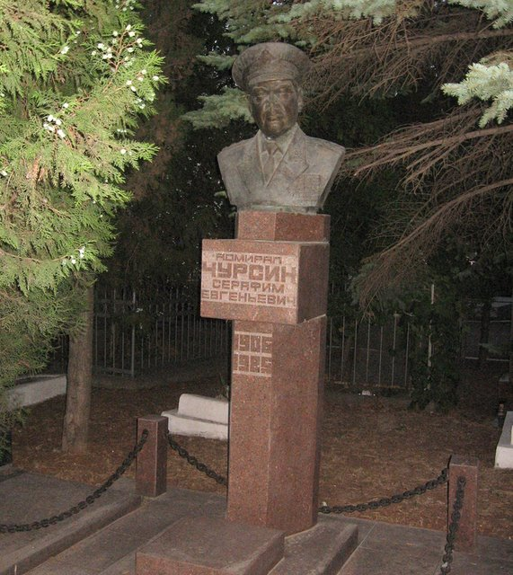 Grave of Admiral Chursin